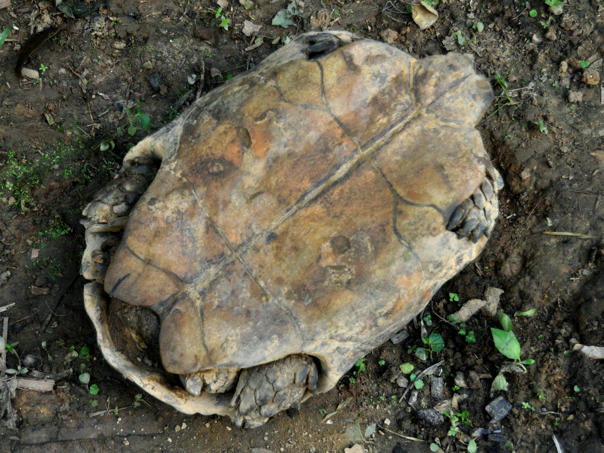 Manouria e. emys, from Upper Pawan River, Ketapang, West Kalimantan, Indonesia. Carapace length ca 40 x 30 cm, plastron 38 x 30 cm. Ventral view.